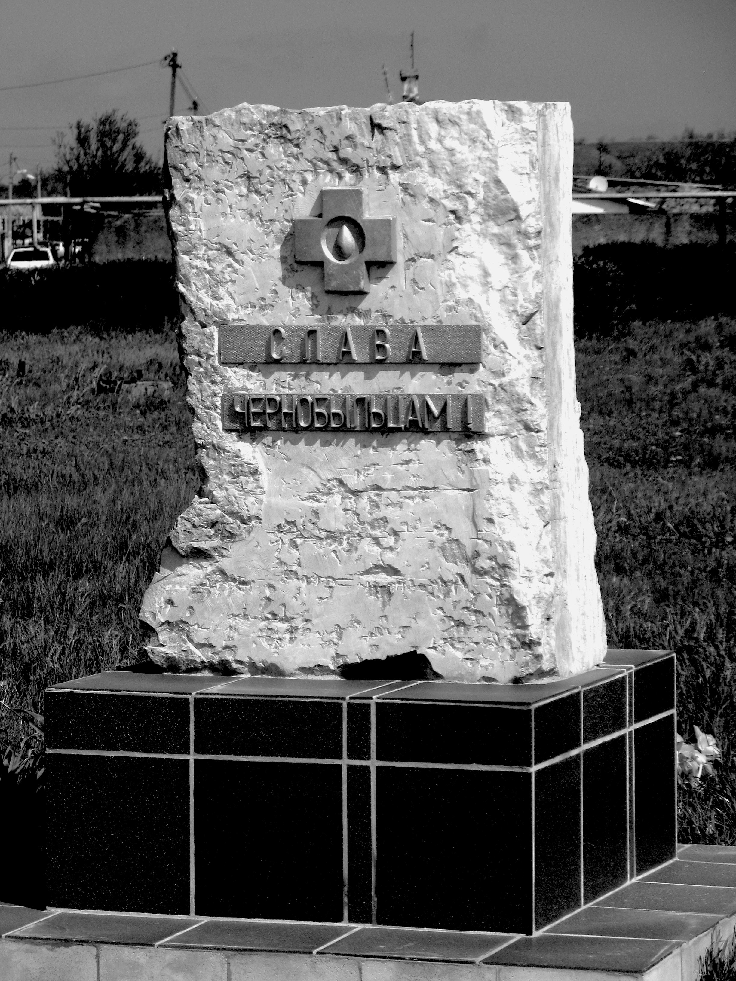 The memorial stone with the text: "GLORY THE CHERNOBYL VICTIMS", (village Sennoi in (Temryuksky District (Russia)).